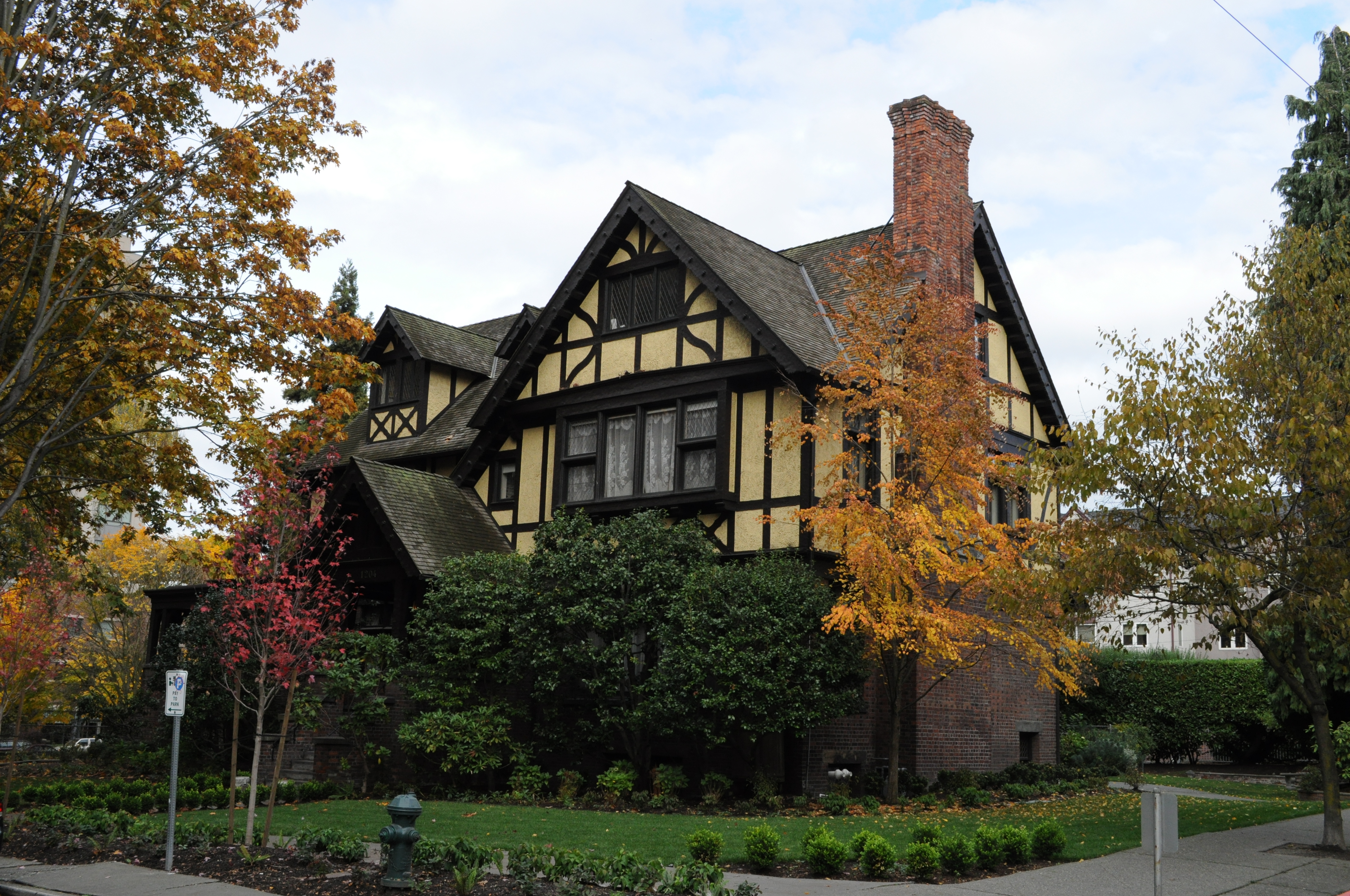 Stimson-Green Mansion (also known as Stimson-Green House, Joshua Green House) 1204 Minor Ave., First Hill, Seattle, Washington, USA. Listed as a Seattle City landmark and on the National Register of Historic Places, ID #76001890.